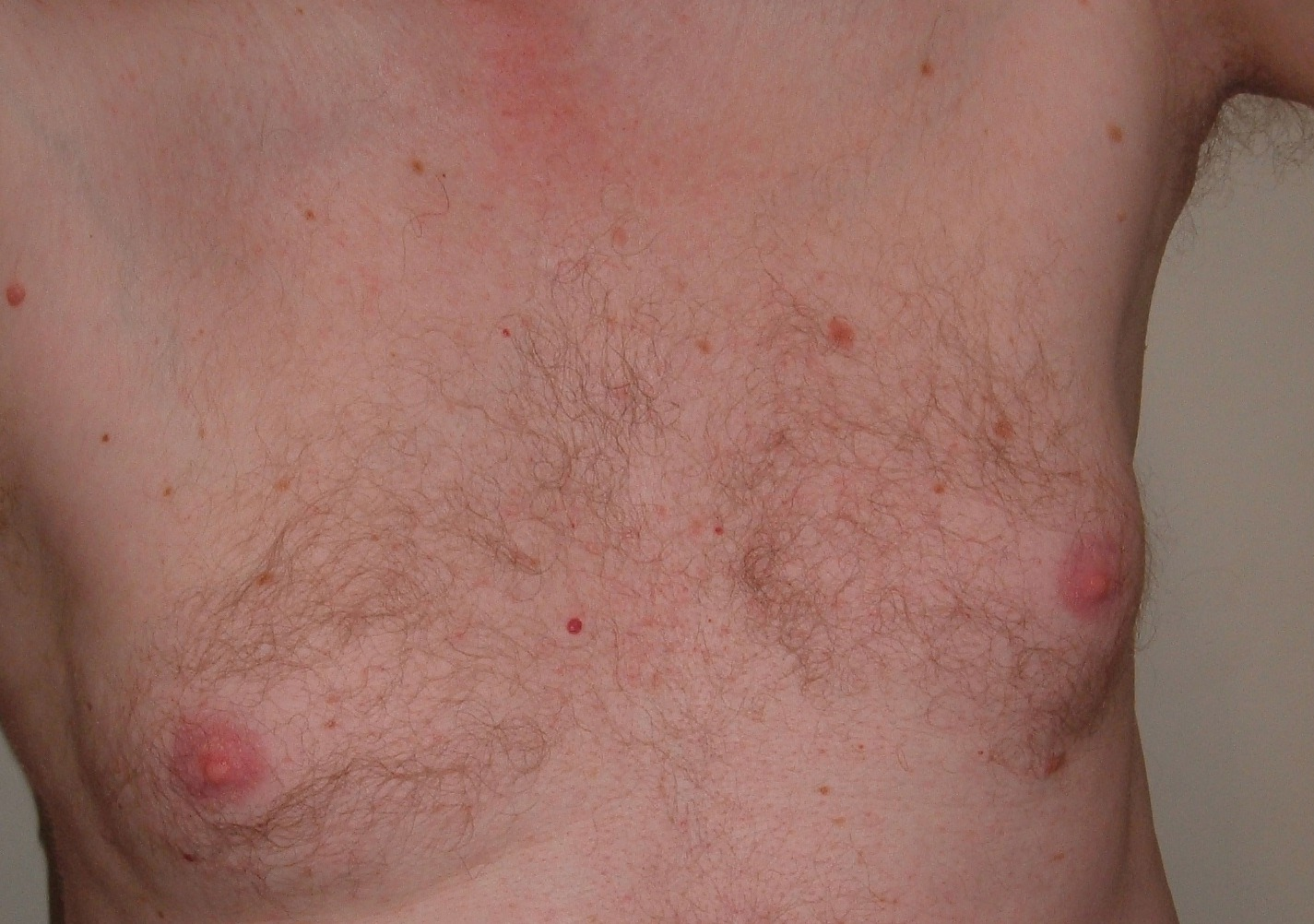 Adult male human chest (author's). One of a series of common objects I photographed in the summer of 2005 to illustrate Basic English picture wordlist. --agr 21:08, 3 August 2005 (UTC)